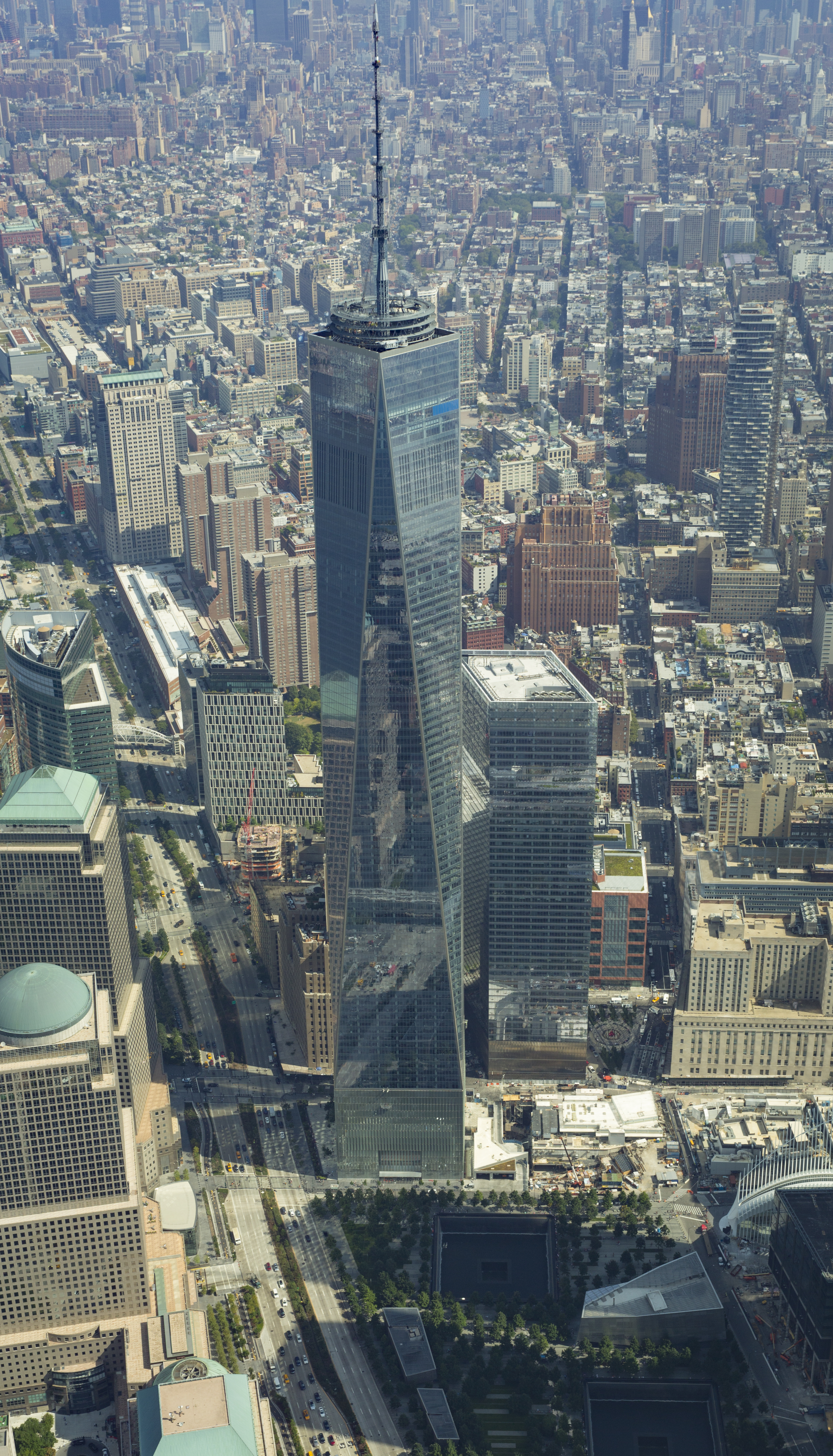 Customs and Border Protection return to the Freedom Tower at the World Trade Center in New York City for the first time since the 9/11 terrorist attacks. Photos by James Tourtellotte